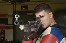 Sgt. 1st Class Jason Parker, sport shooter